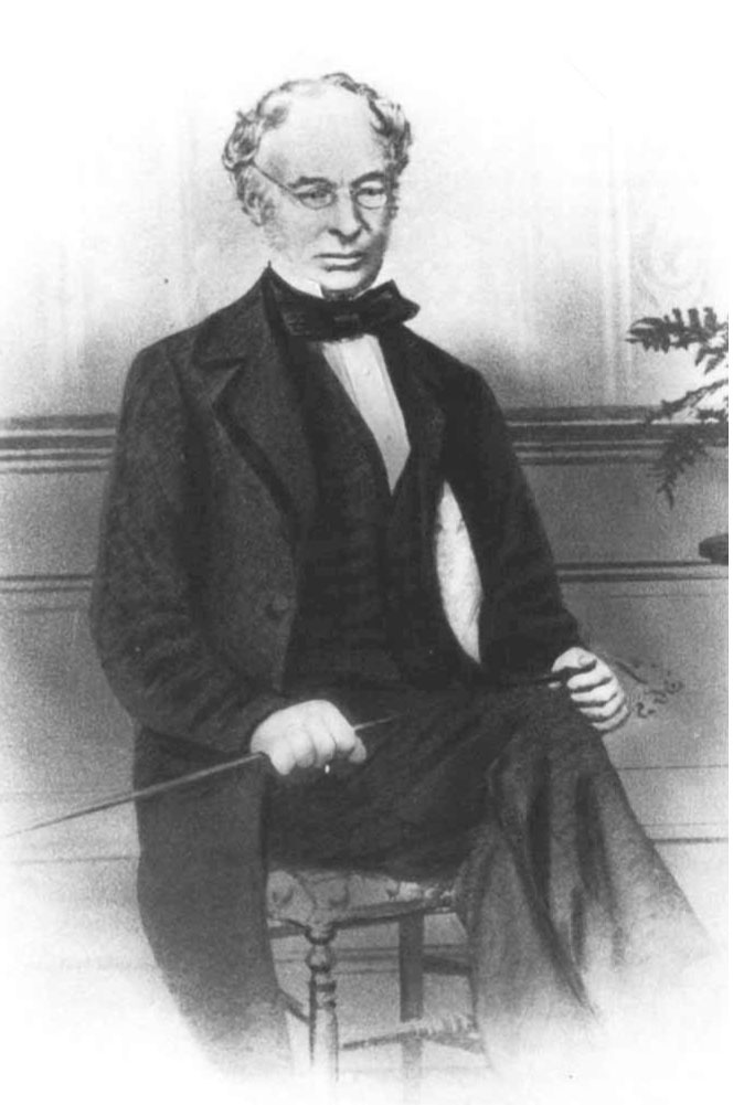 Frederick Scheer (1792–1868)